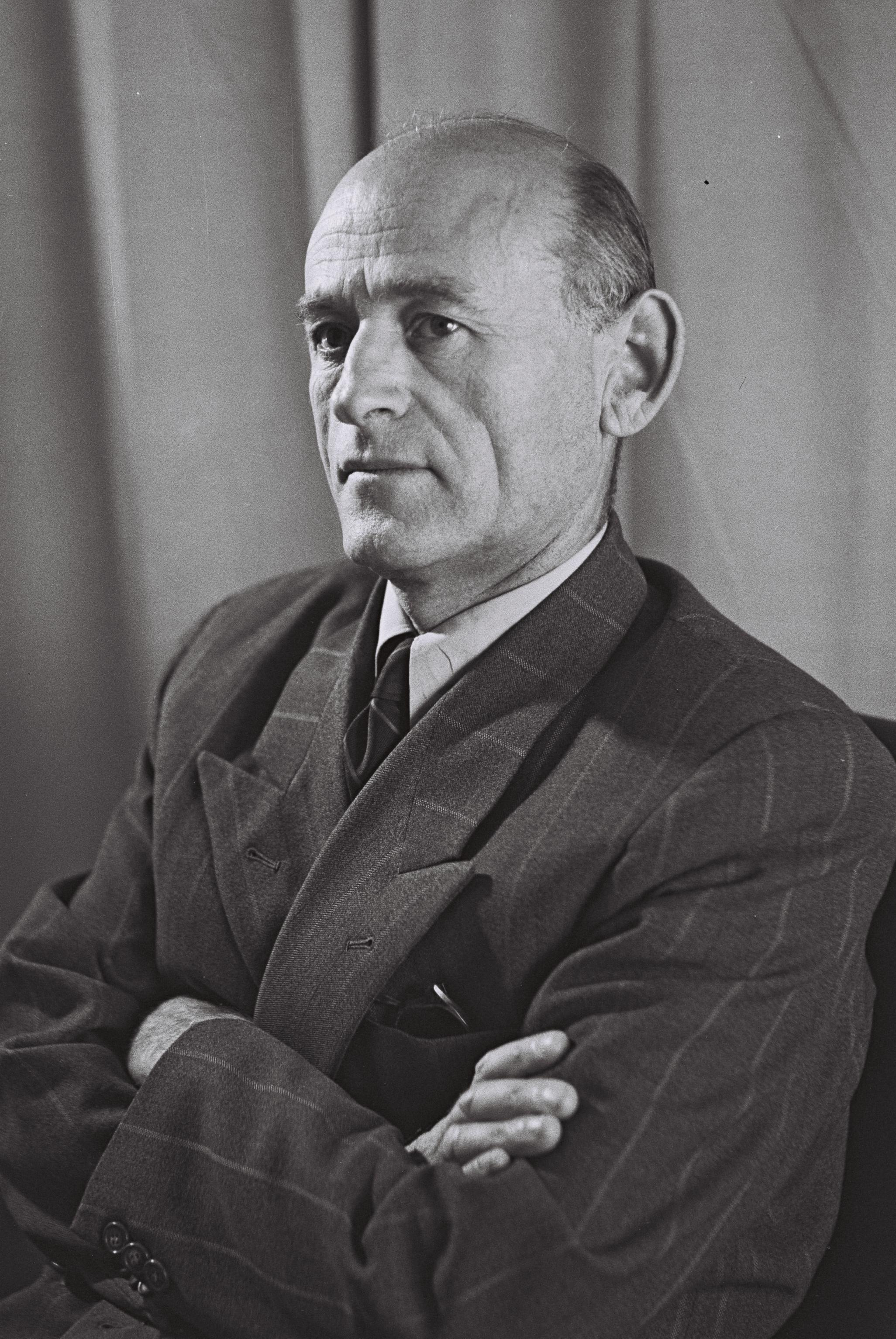 Meir Argov, member of Knesset, Mapai party.